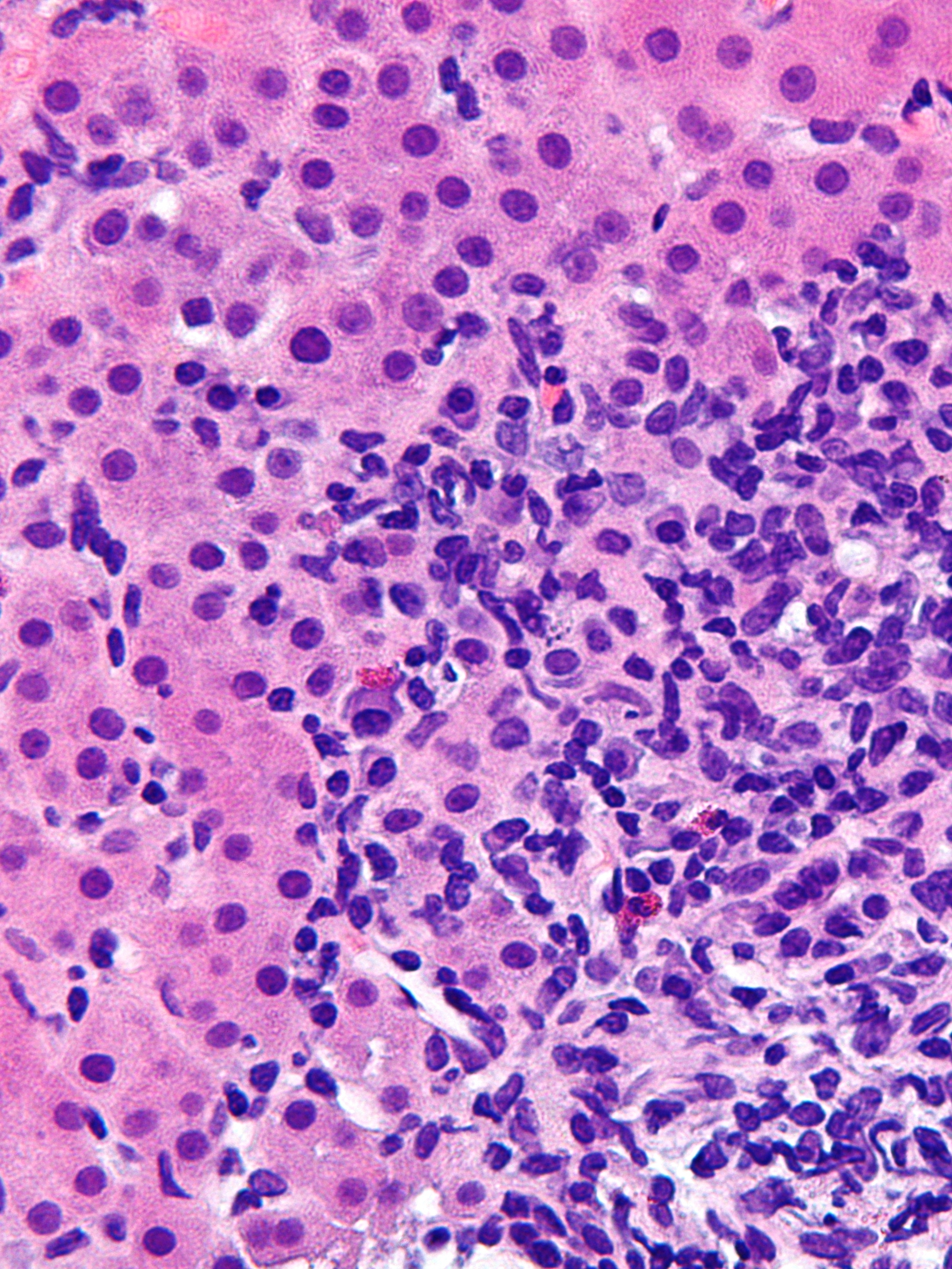 Very high magnification micrograph of autoimmune hepatitis. H&E stain. The characteristic feature is present: Lymphoplasmacytic interface hepatitis - plasma cells and lymphocytes at the interface between the portal tract and liver lobule. Interface hepatitis per se is non-specific; it may be seen in viral hepatitides. The plasma cells are what is important! Related images Low mag. Intermed. mag. High mag. Very high mag. Very high mag. (cropped)